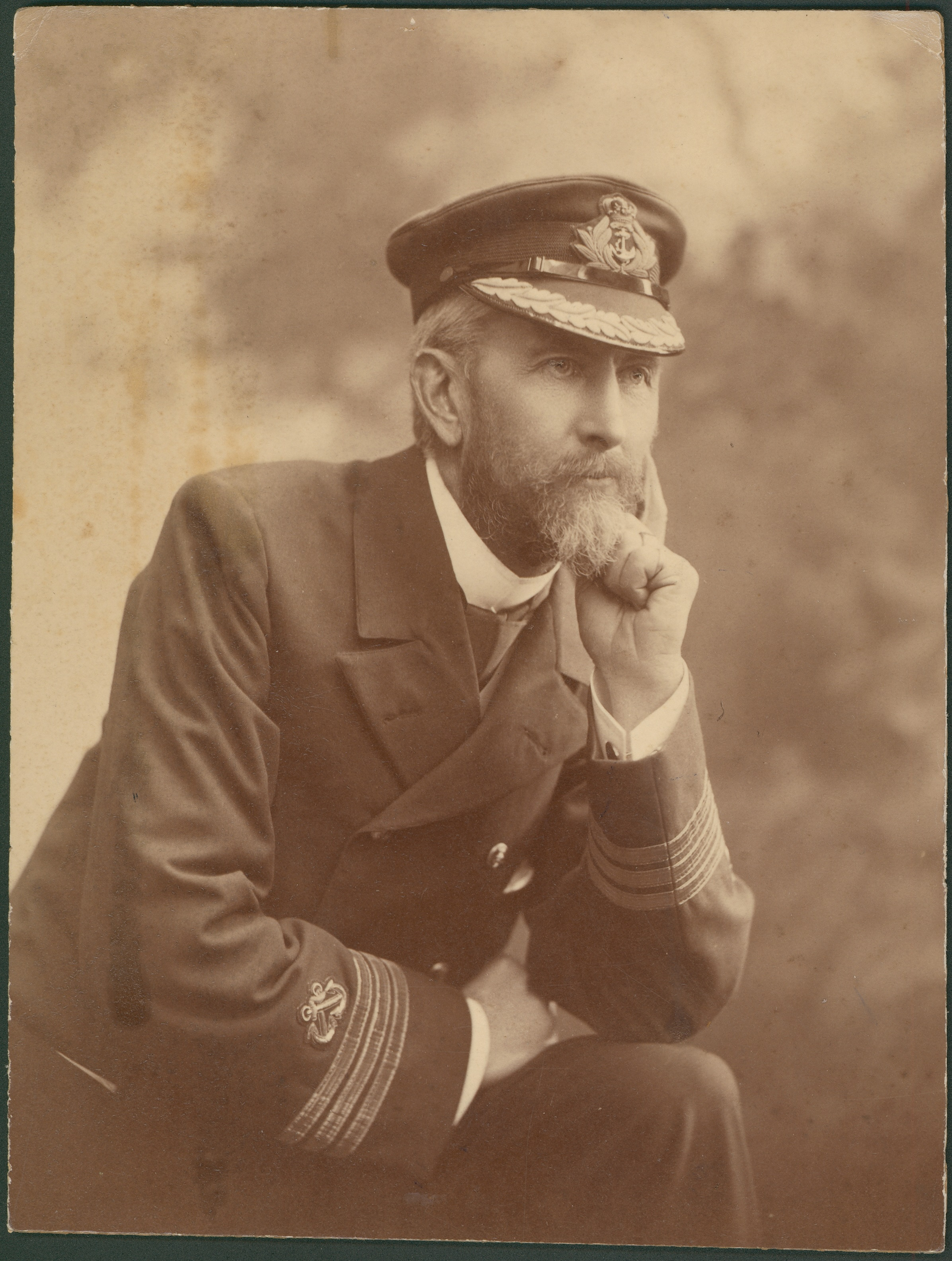 Chapman James Clare (23 June 1853 – 28 September 1940) was a British sailor who worked on merchant vessels, then on Australian government ships, and after formation of the Royal Australian Navy as a senior naval officer. This portrait was published in The Adelaide Chronicle, 5 July 1902. It is provided by the State Library of South Australia, item B 11110, designated as having 'no known copyright restrictions'